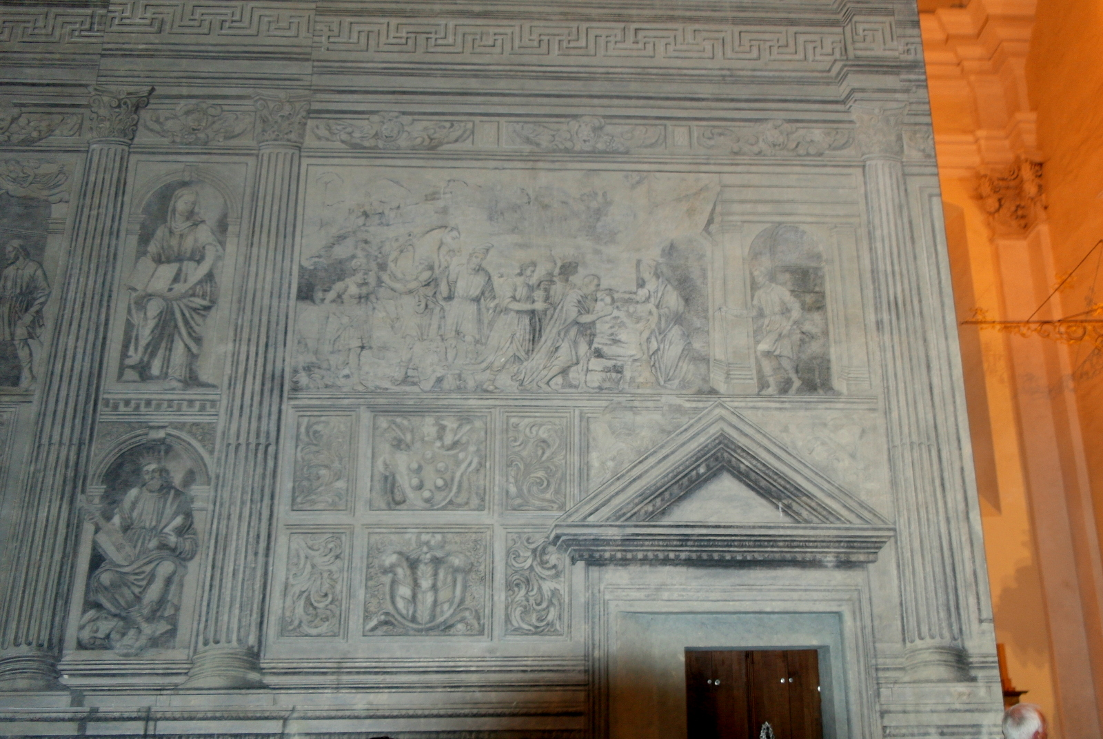 Church of the Holy Trinity (Slaný) Hlaváčkovo us. 221, Slaný. Loretto Chapel built in 1657 in the middle of the nave of the church.